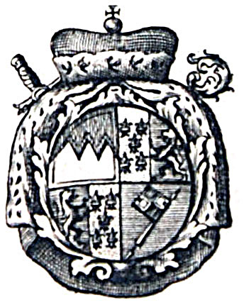 Coat of Arms Burchard of Würzburg, Bishop of Würzburg in 741–754.